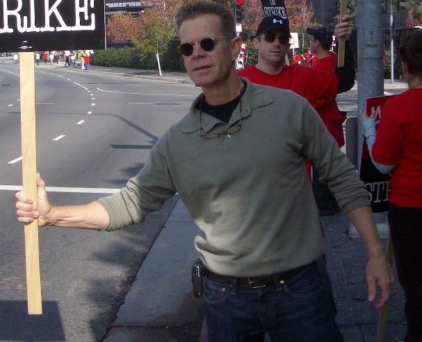 American movie actor William H. Macy stops traffic during Screenwriters' strike.